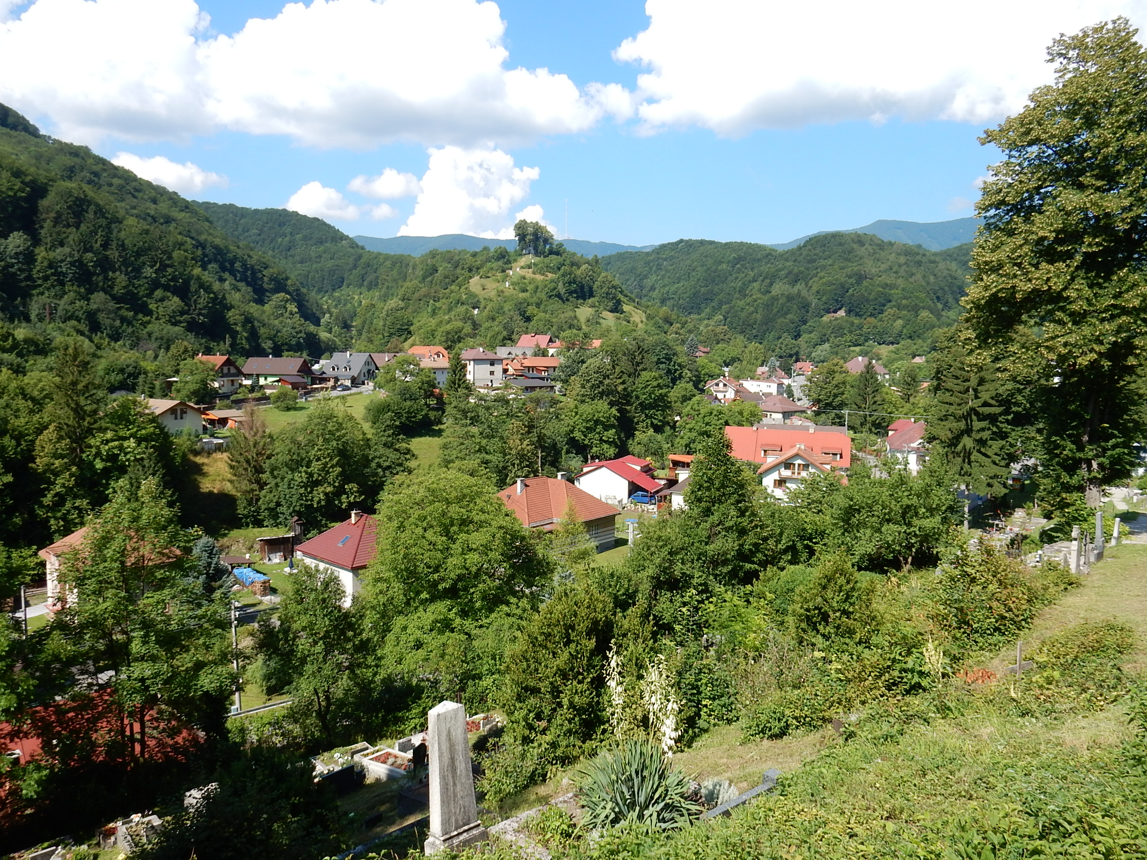 Tajov - view of the village with the calvary in background